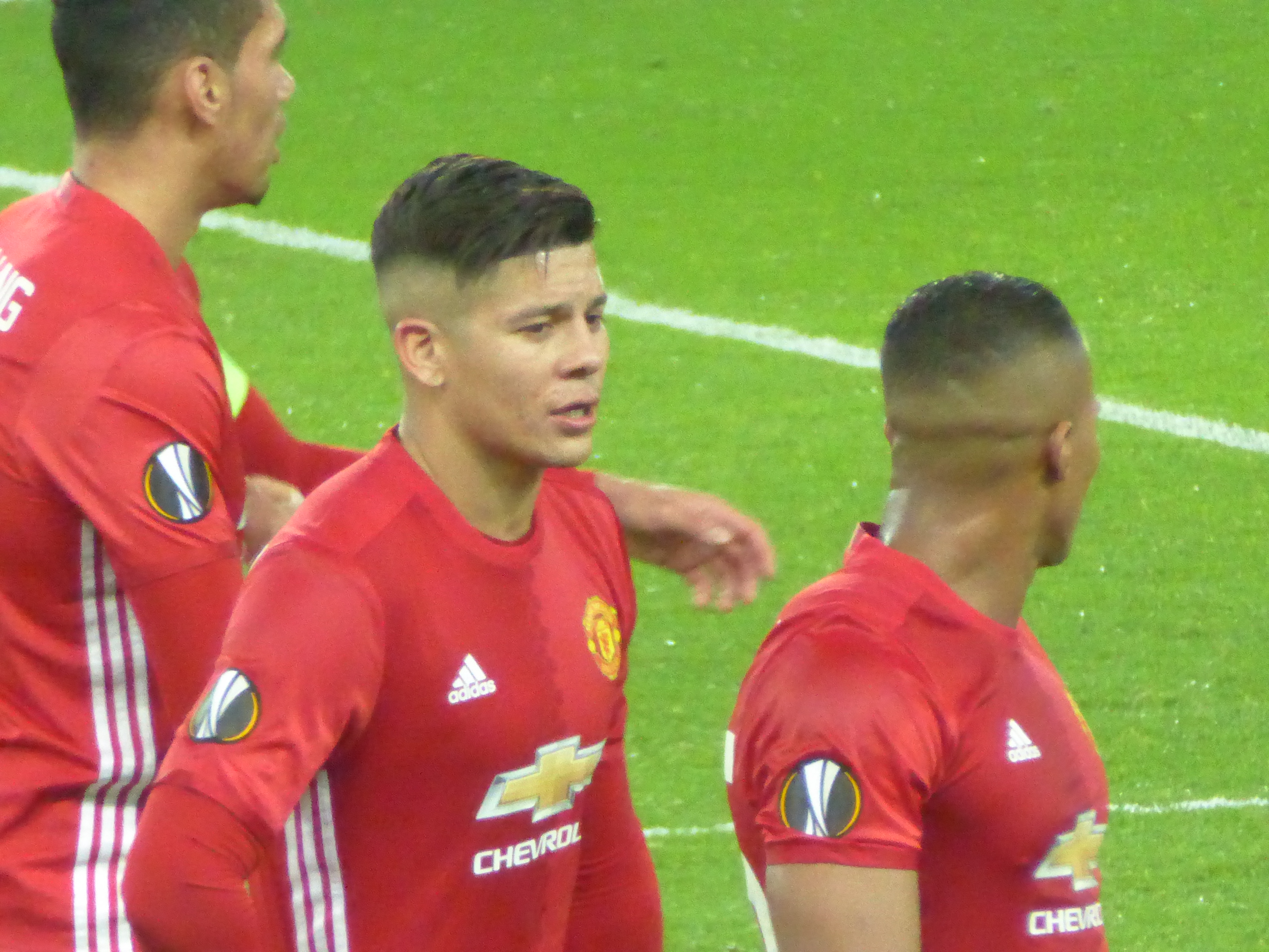 Manchester United v FC Rostov (1-0), UEFA Europa League, Old Trafford, Manchester, 16 March 2017